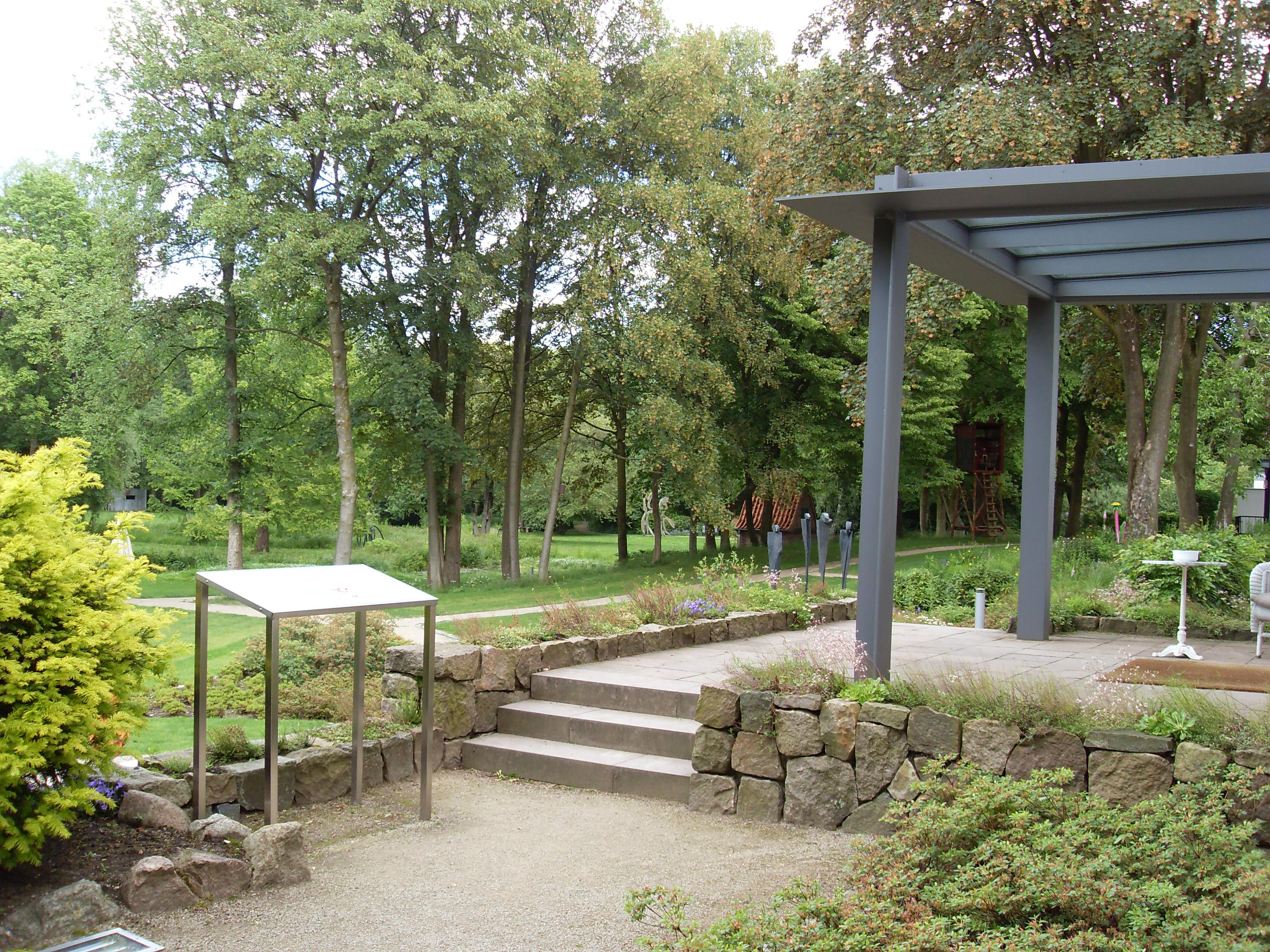 Gerisch-Skulpturenpark in Neumünster